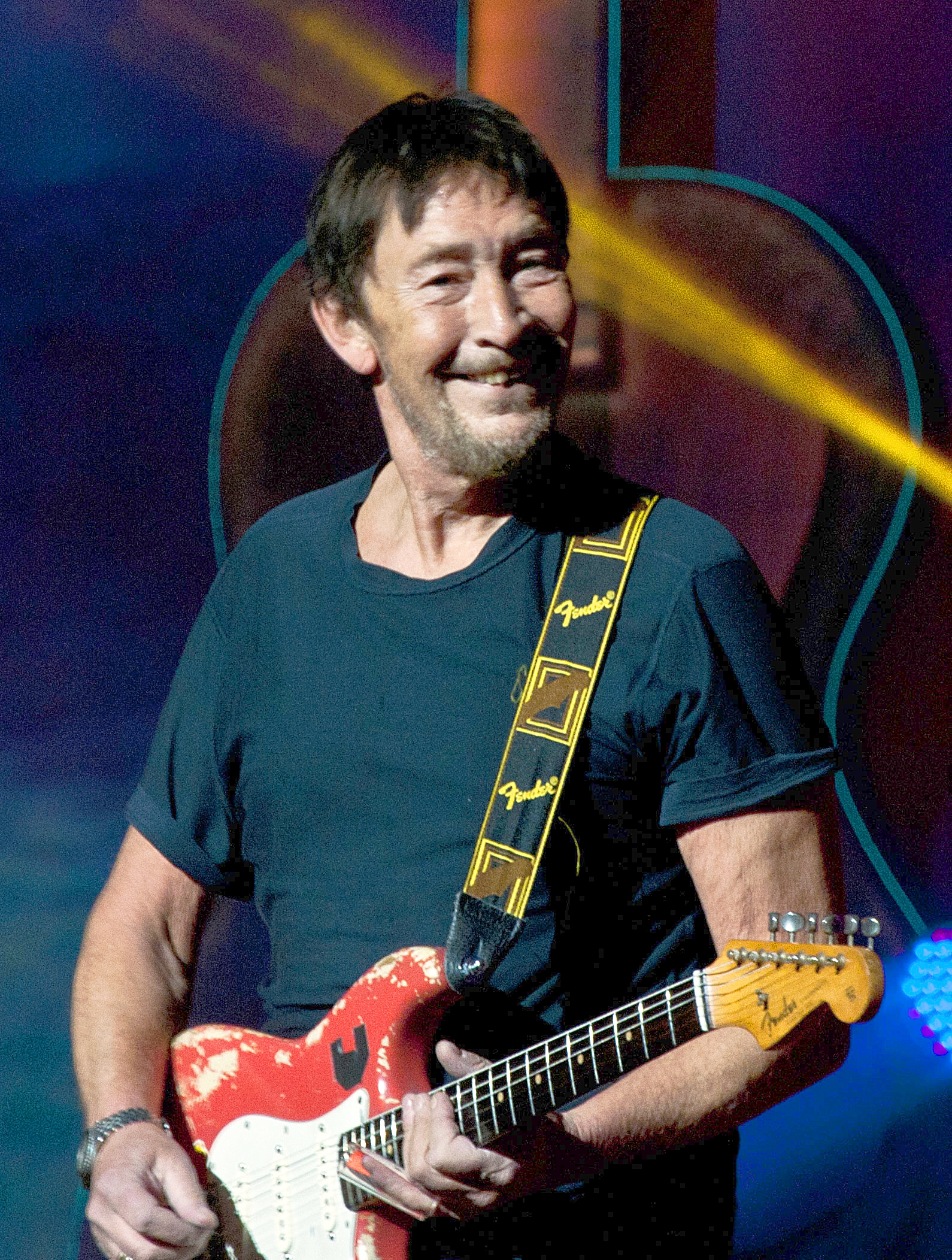 Chris Rea, Concert at Sala Kongresowa, Warsaw, Poland on February 5, 2012 during Santo Spirito Tour